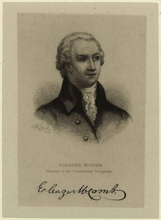 Taken from - due to its age it's in the public domain